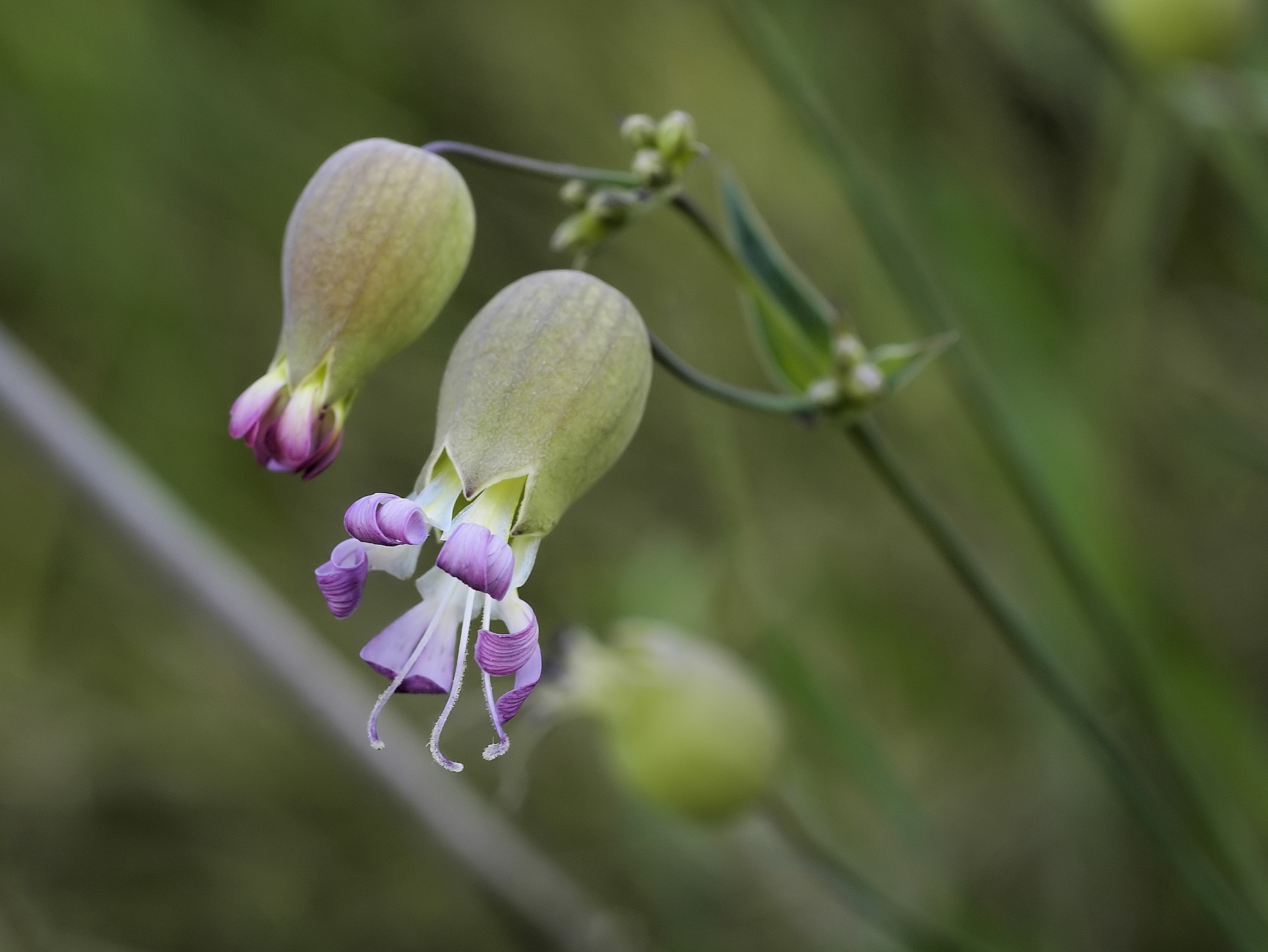 Bladder Campion Font de Tita, el Perelló (Catalonia), Spain